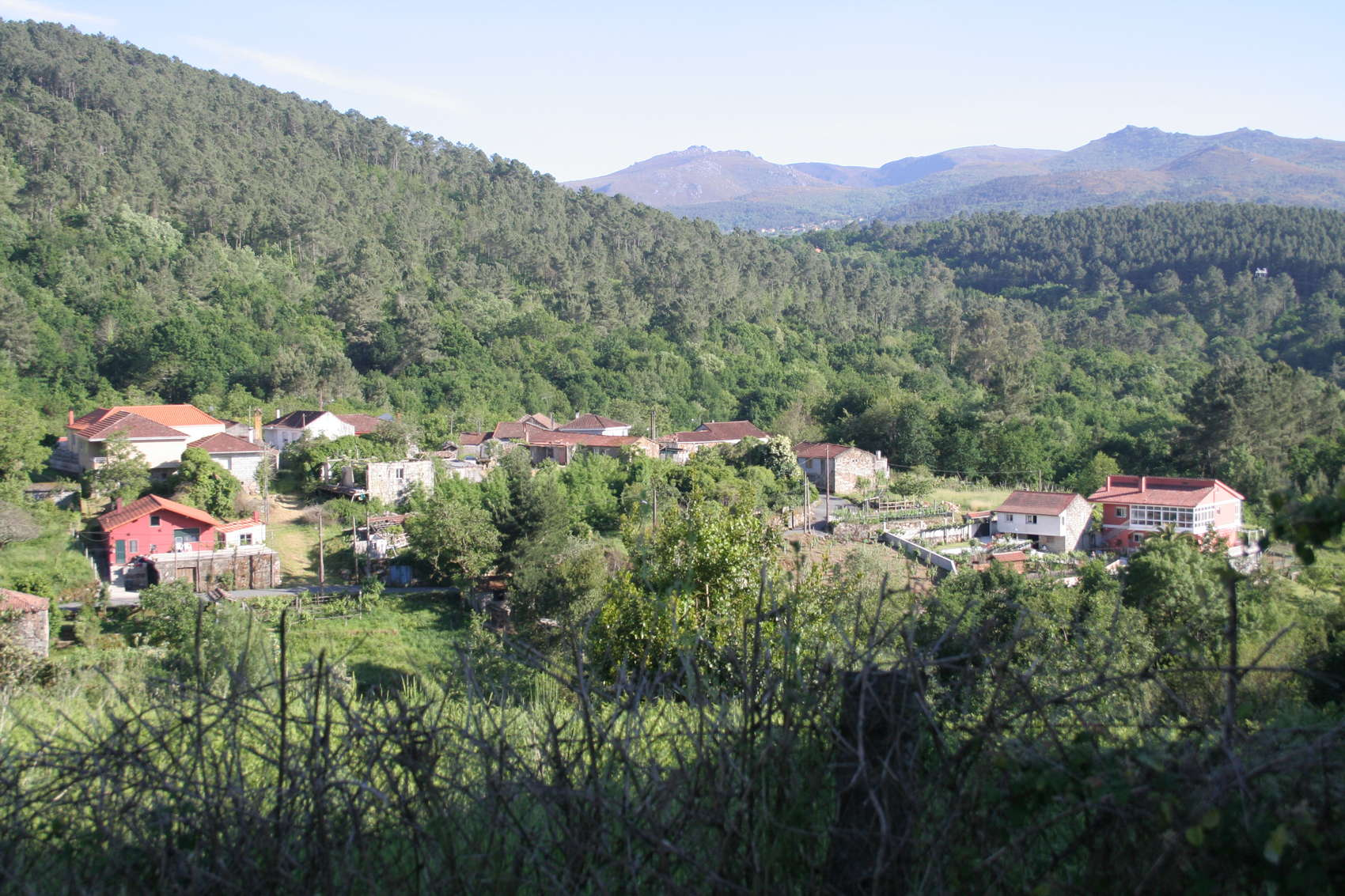 Couto, O Pao, Gomesende (Spain)